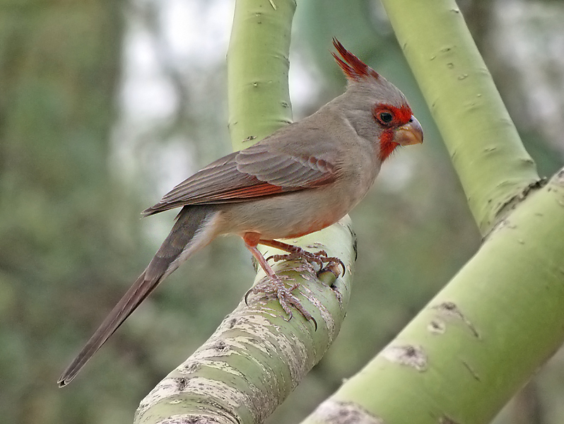 Tucson, AZ